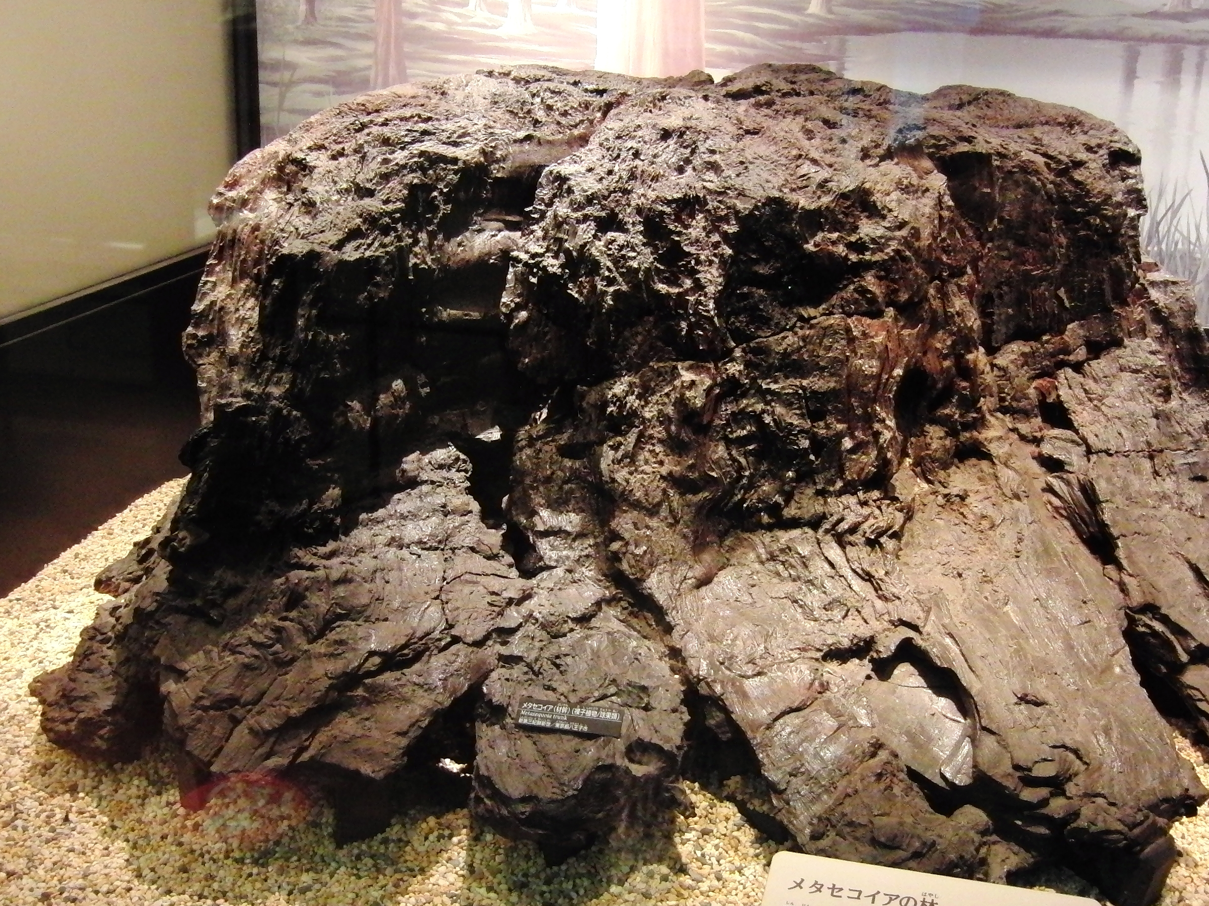 Fossil of Metasequoia trunk from Asa River, Hachioji, Tokyo, Japan. Pliocene. Exhibit in the National Museum of Nature and Science, Tokyo, Japan.